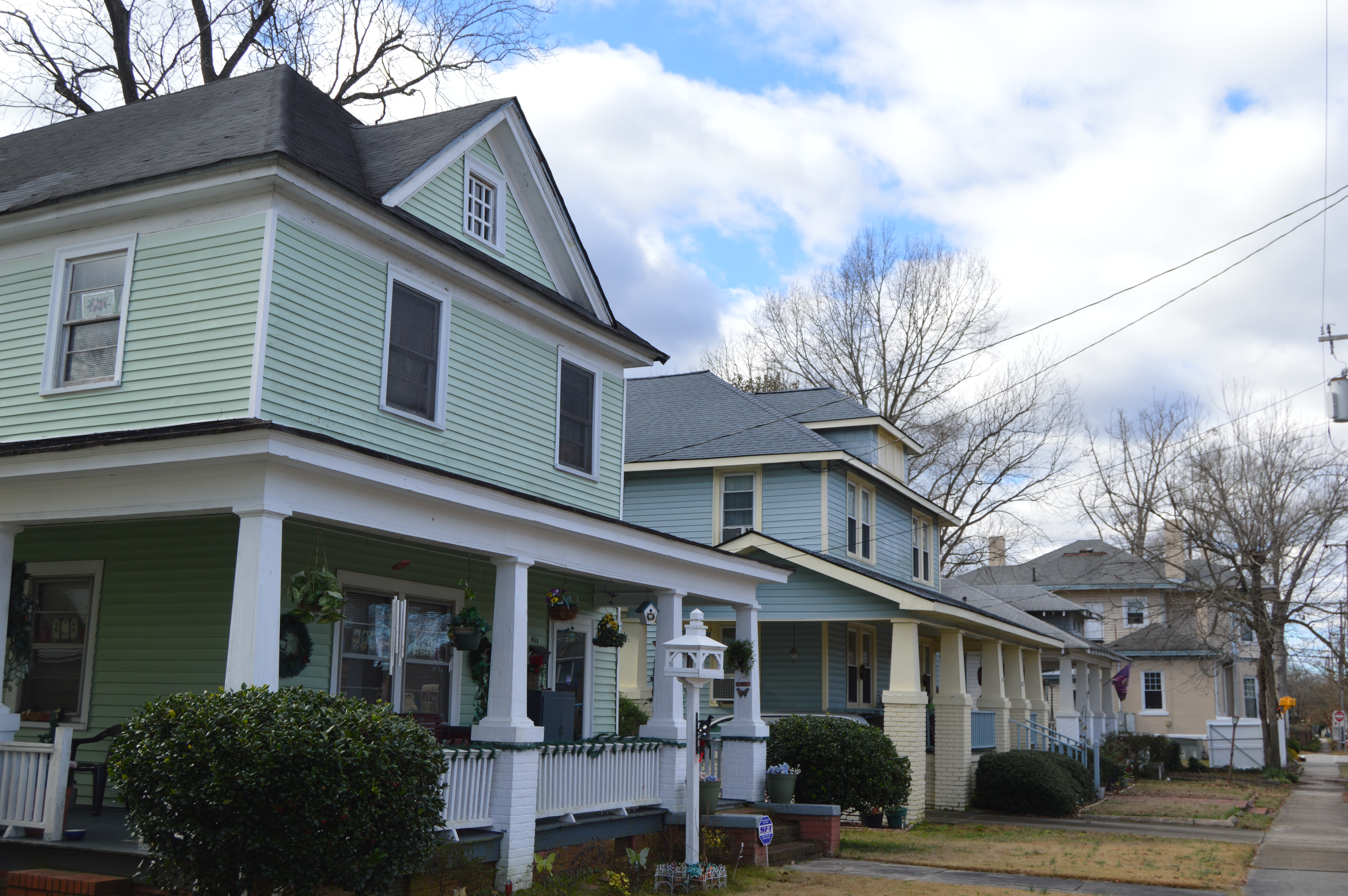 Houses on the southern side of the 400 block of W. Nash Street in Rocky Mount, North Carolina, United States. This block is part of the Villa Place Historic District, a historic district that is listed on the National Register of Historic Places.